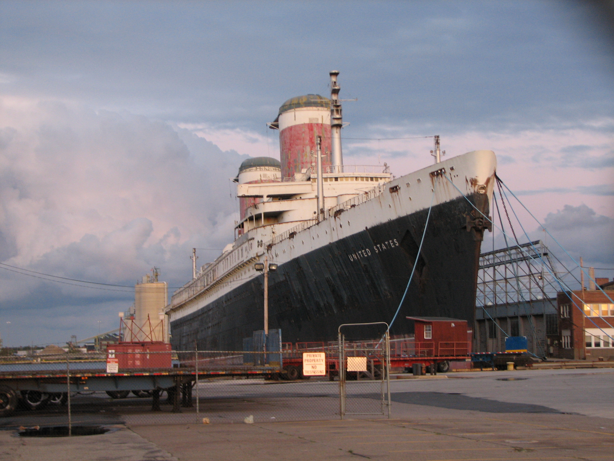 SS united states docked at Philadelphia, pa